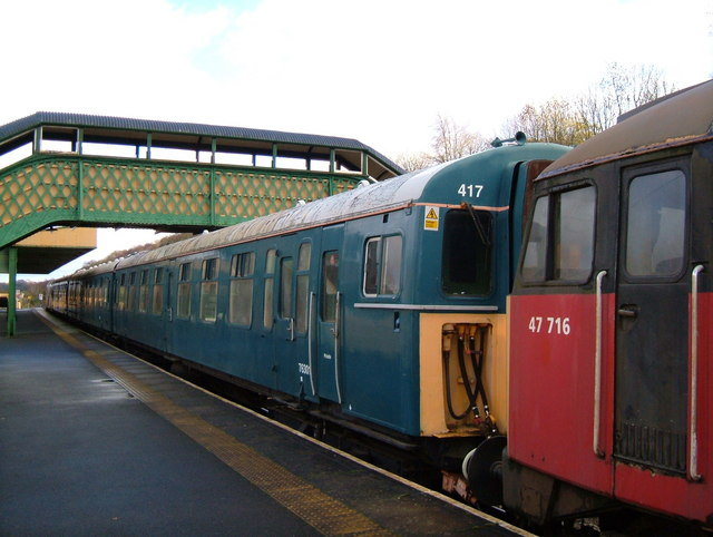 Okehampton Railway Station, Devon